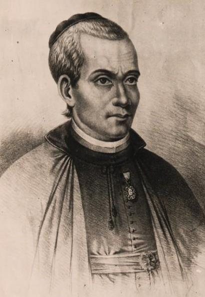 A portrait of José Maurício Nunes Garcia